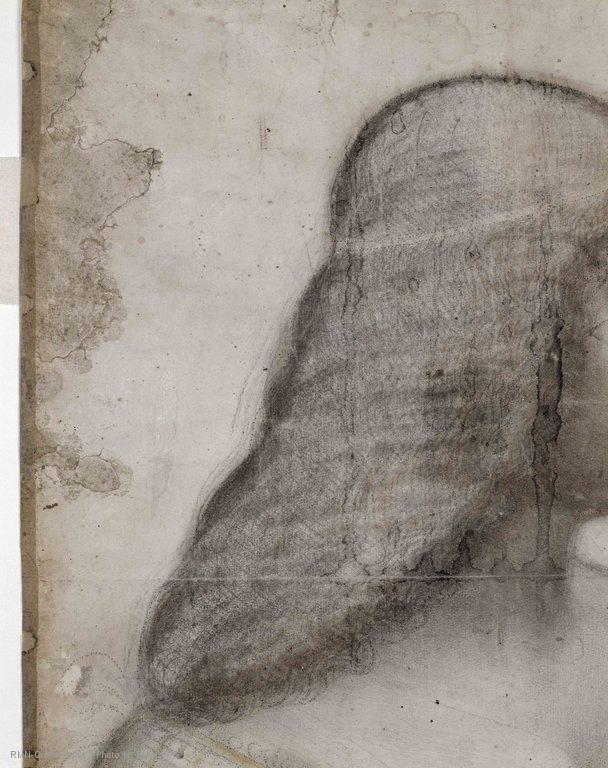 Detail of hair